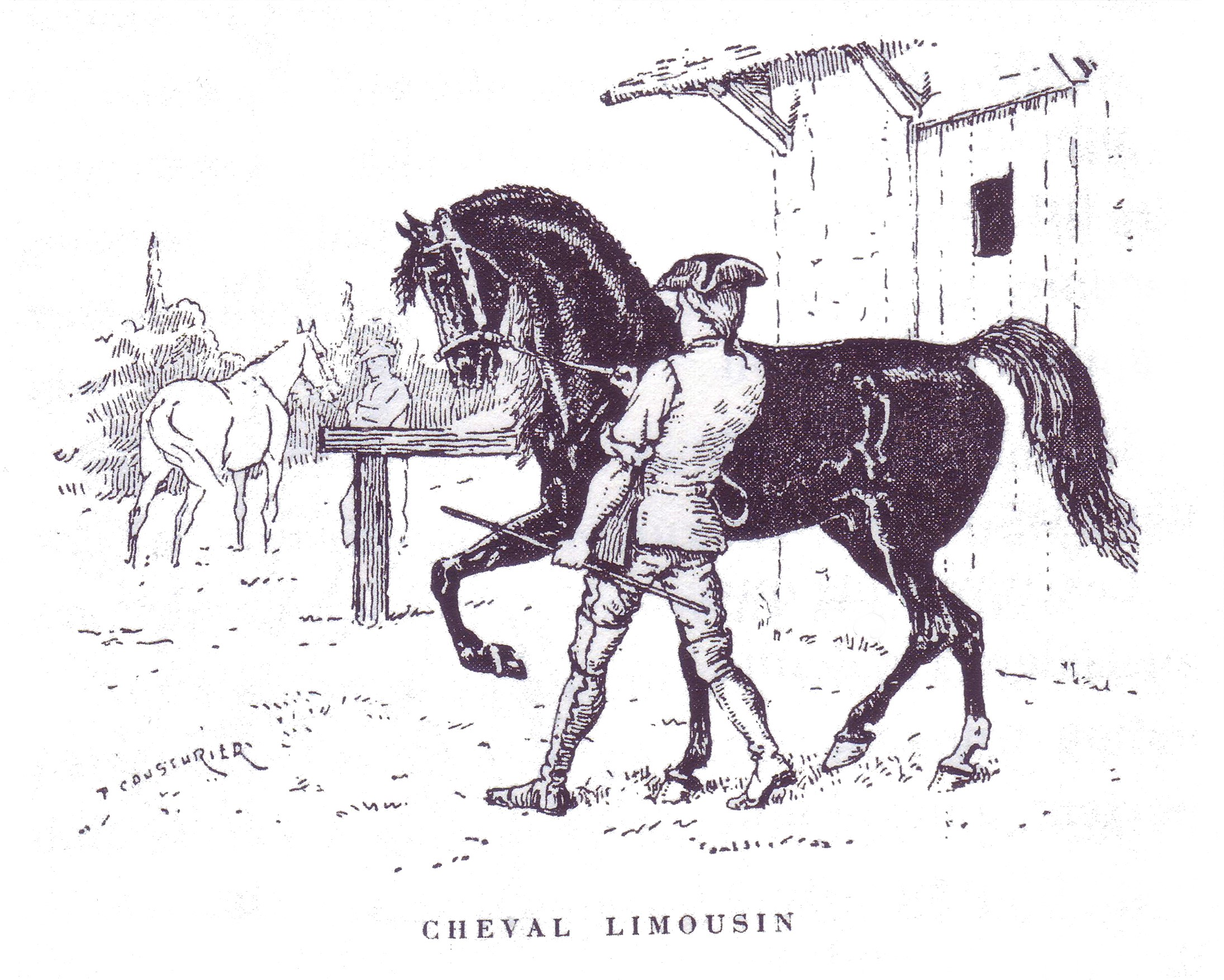 Limousin horse